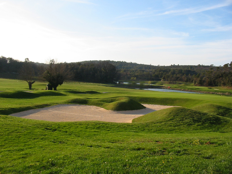 Bunker at 18th Green, golf de Barbaroux in Brignoles (Var, France)